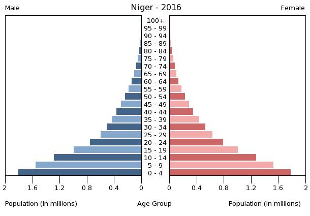 The population pyramid of Niger illustrates the age and sex structure of population and may provide insights about political and social stability, as well as economic development. The population is distributed along the horizontal axis, with males shown on the left and females on the right. The male and female populations are broken down into 5-year age groups represented as horizontal bars along the vertical axis, with the youngest age groups at the bottom and the oldest at the top. The shape of the population pyramid gradually evolves over time based on fertility, mortality, and international migration trends.